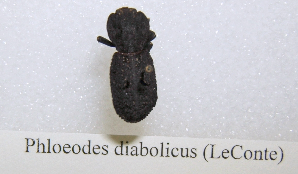 Phloeodes diabolicus adult taken by Shawn Hanrahan at the Texas A&M University Insect Collection in College Station, Texas.